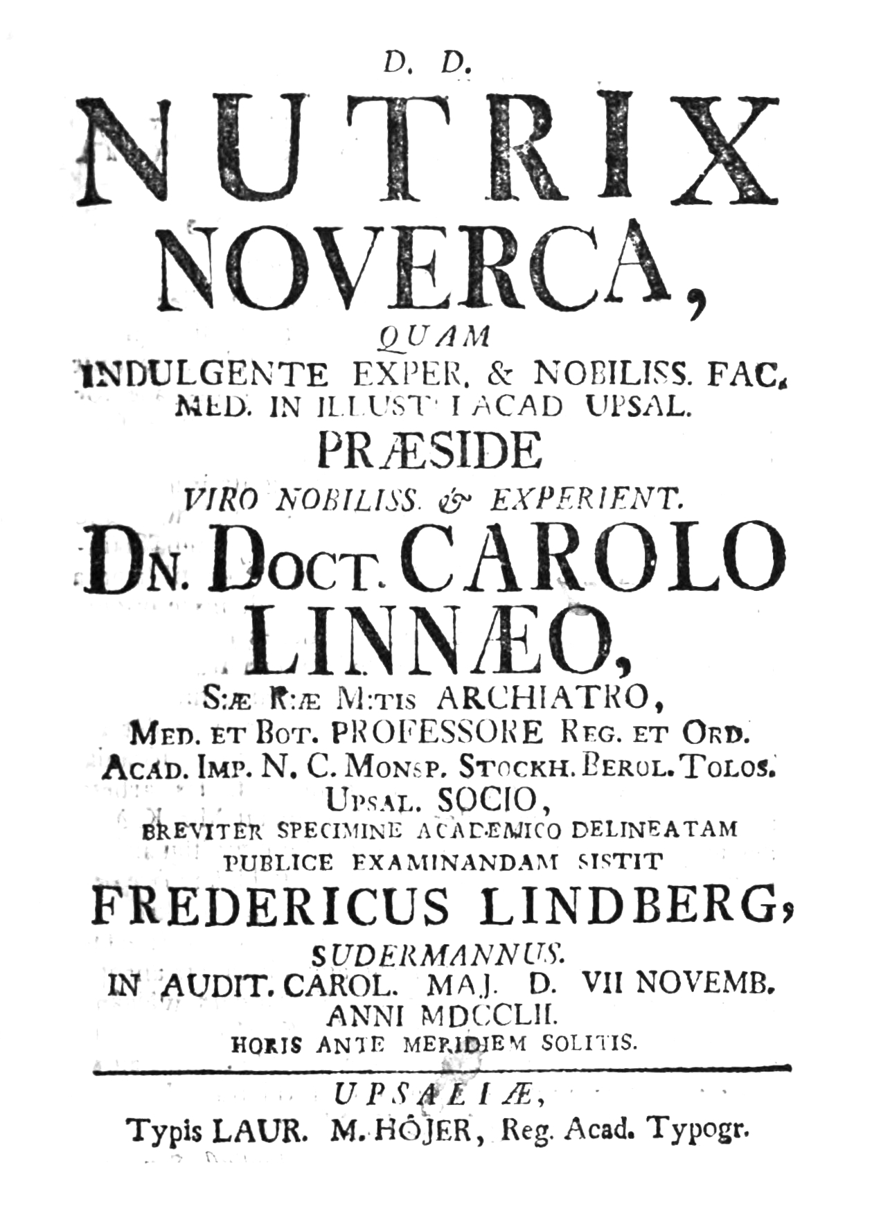 Cover of Nutrix noverca, a 1752 tract by Carl Linnaeus criticising the use of wet-nurses and propagating the idea that mothers needed to breast feed their babies.